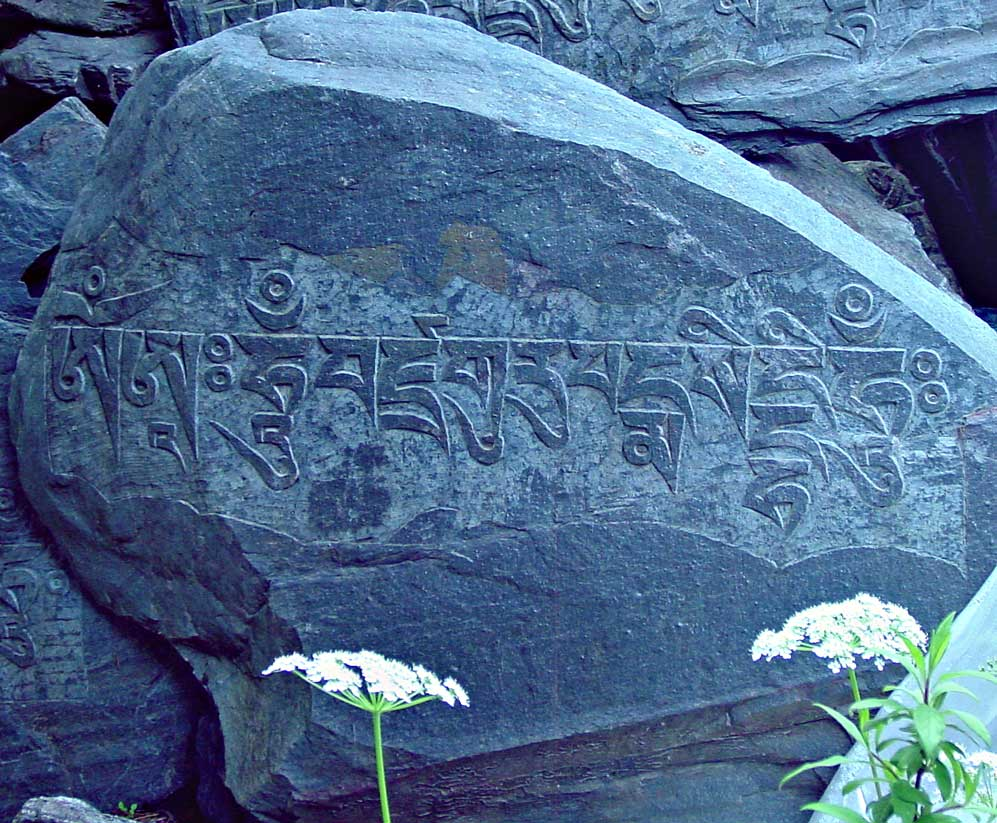 Om mani padme hum (mantra) at Tsozong Gongba Monastery (The mantra shown in this picture is actually the mantra of Padmasambhava ~ "Om Ah Hum Vajra Guru Padma siddhi Hum". )